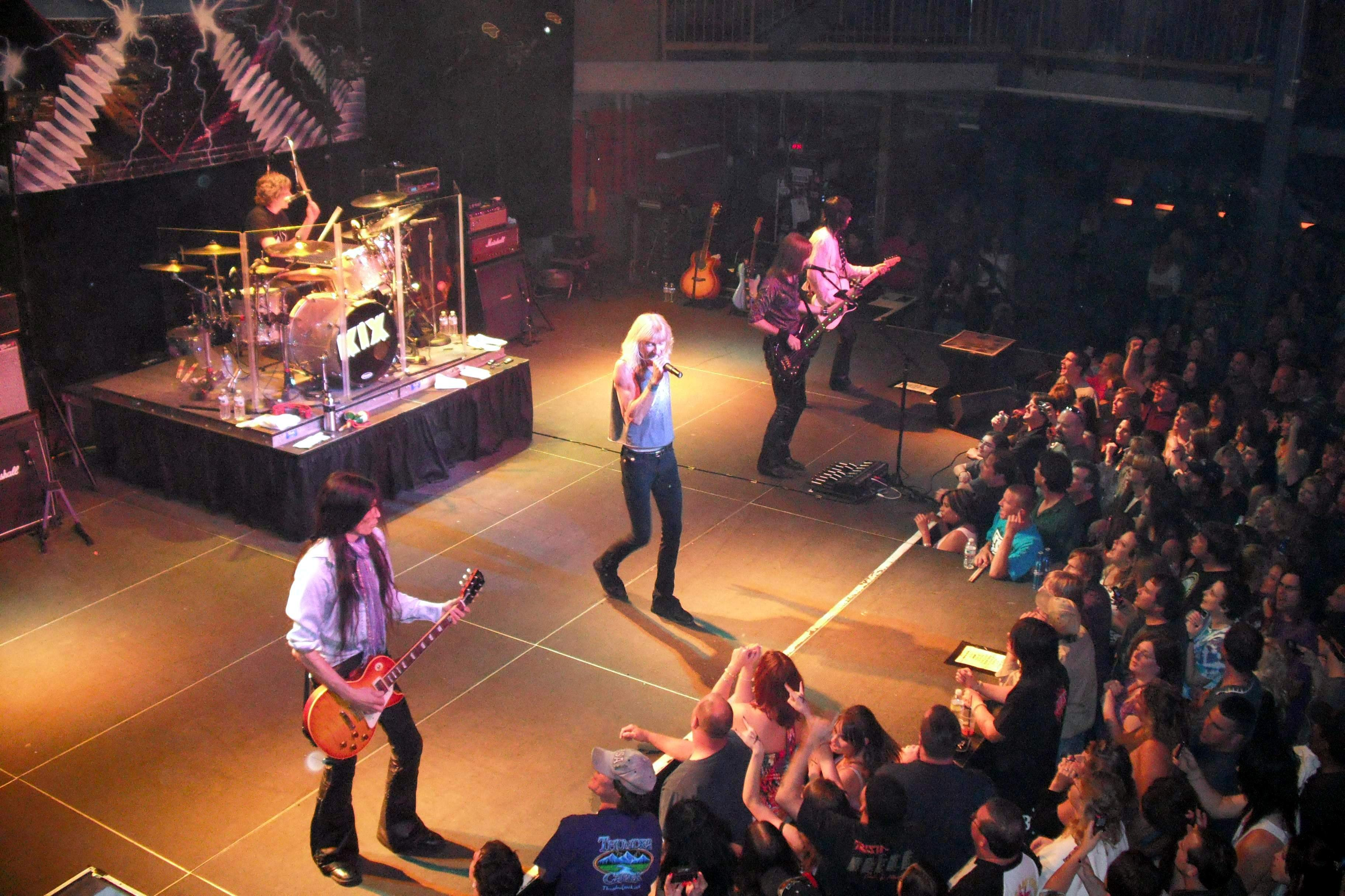 Kix (band) performing. Photo By Ted VanPelt 9-19-2009 at Rams Head Live Baltimore.